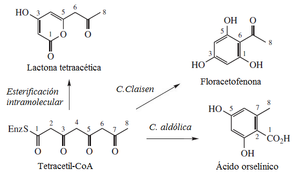 Tetraketides scheme